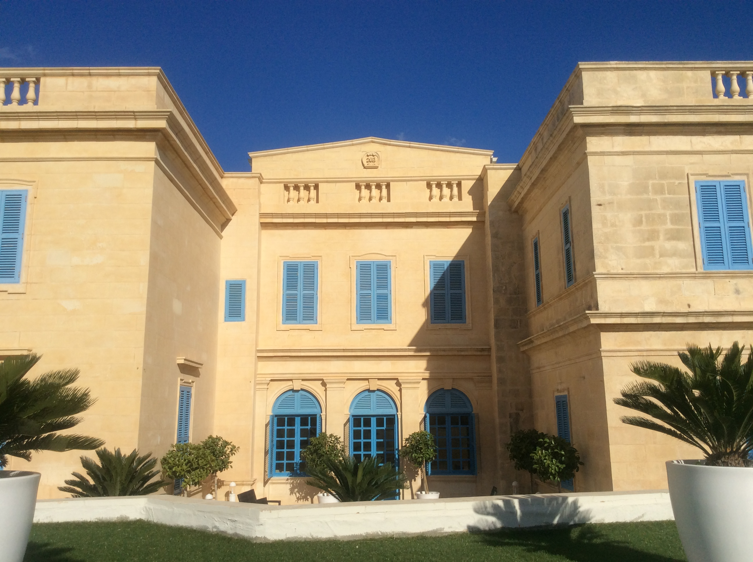 Dar Kenn Għal Saħħtek was a former British barracks